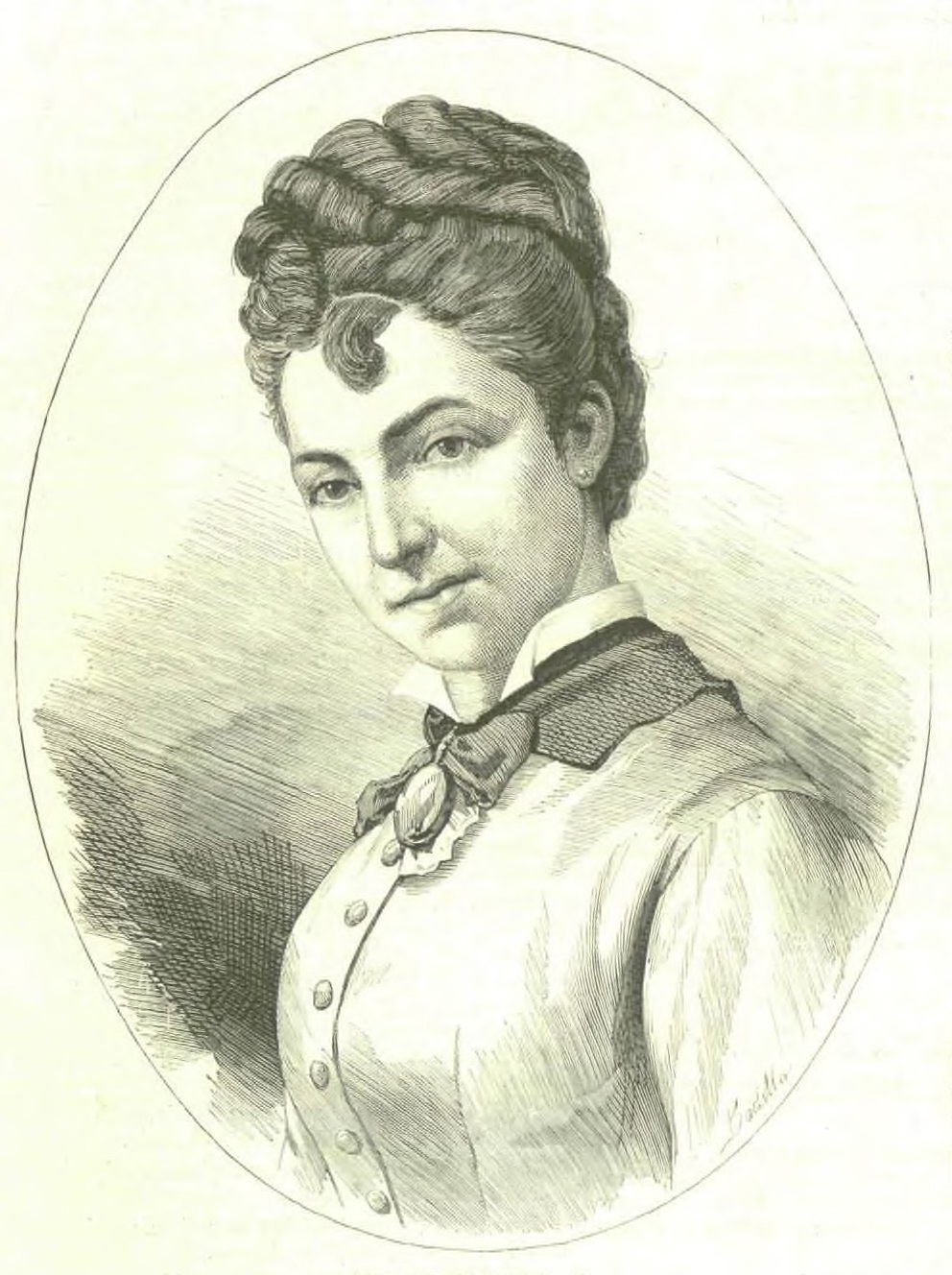 Erminia Borghi-Mamo (1855-1941), opera soprano singer. Illustration from: La Ilustración Española y Americana, 1878, No, 8, p. 152.